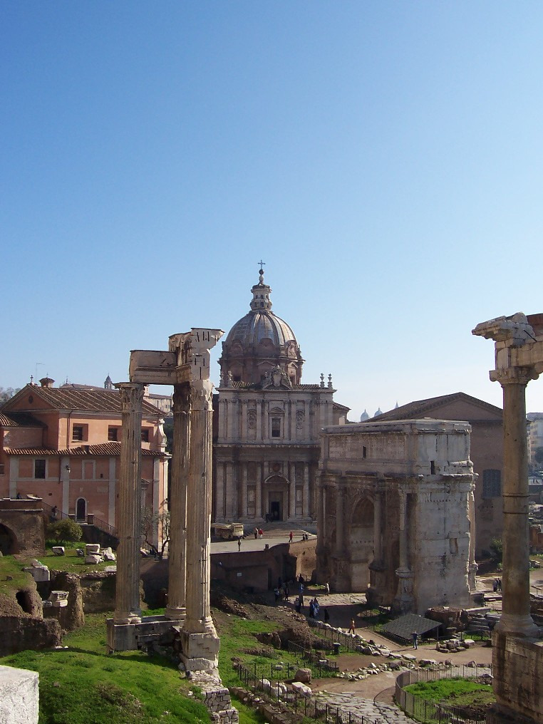 The church of Santi Luca e Martina, Rome